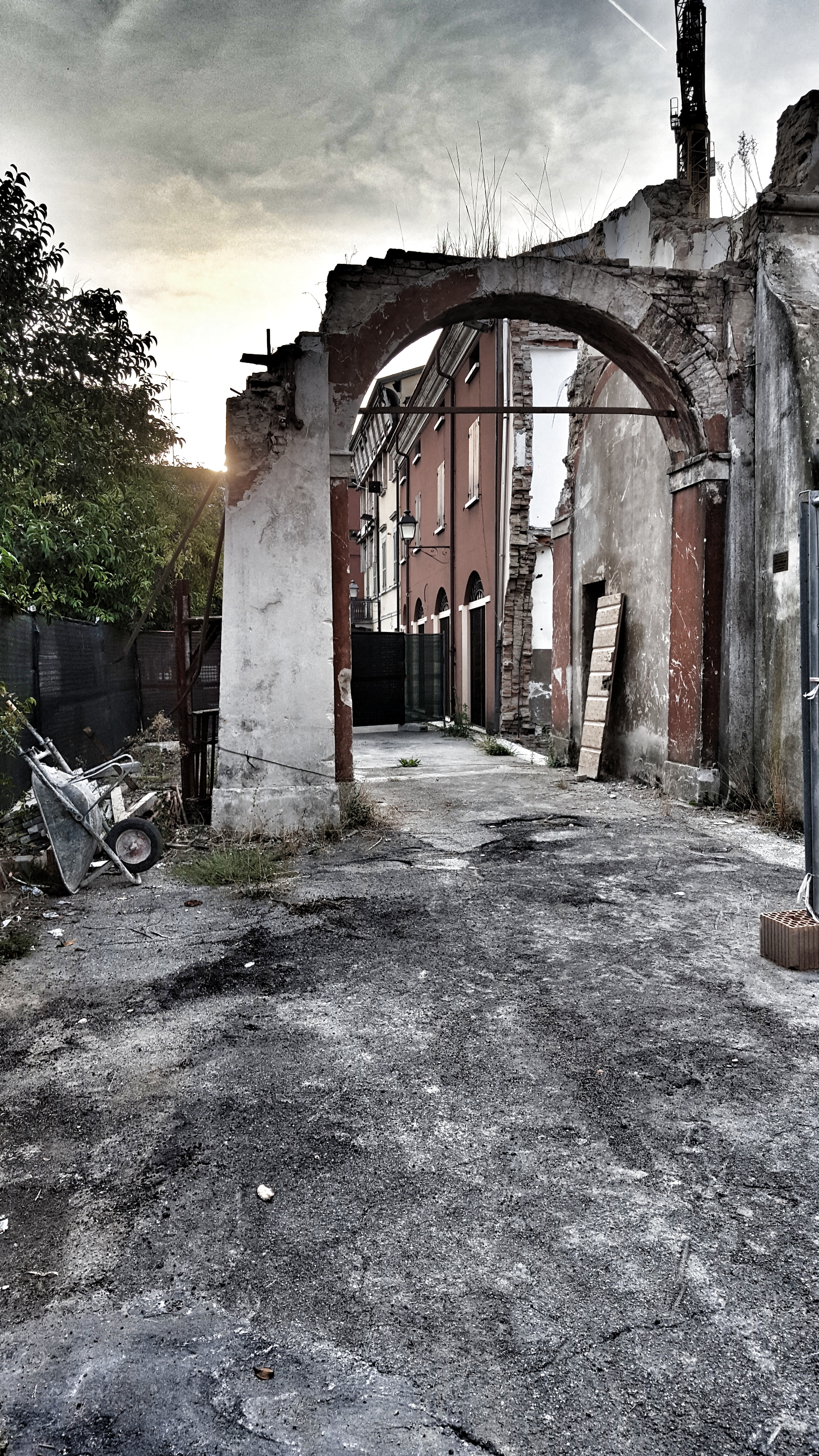 This is a photo of a monument which is part of cultural heritage of Italy.